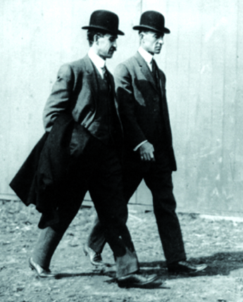 Wright brothers flyer